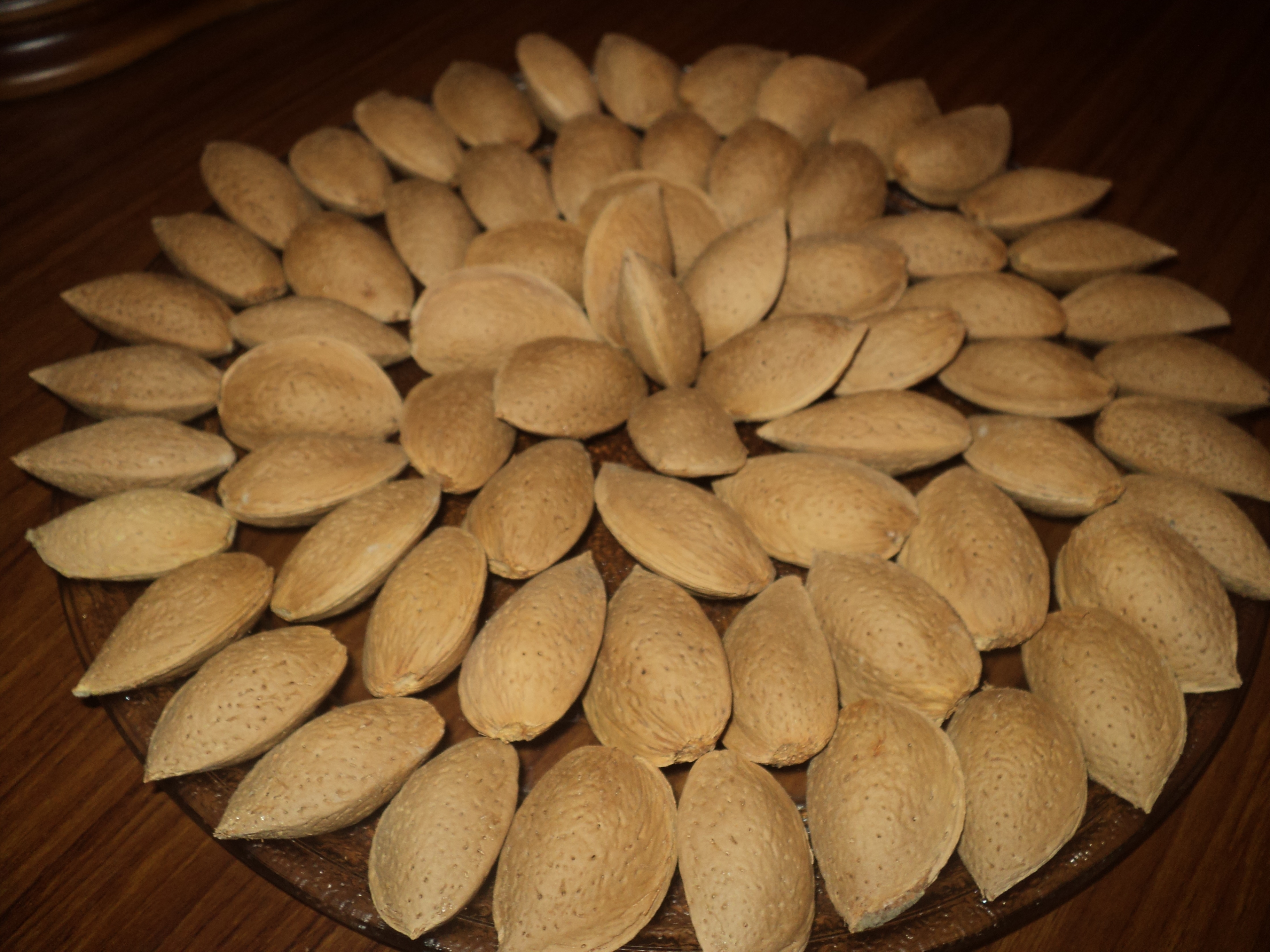 Almonds from Le petit jardin